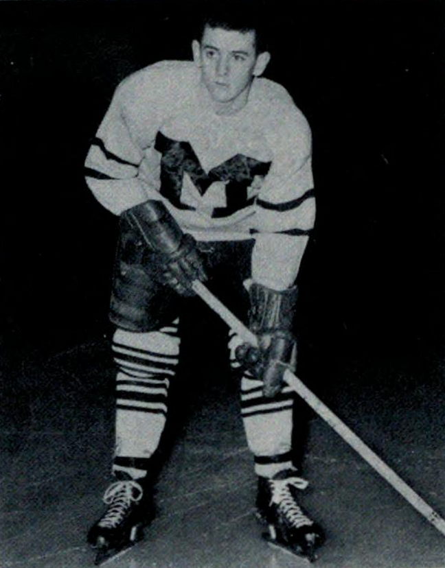 Mike Walton, circa 1972